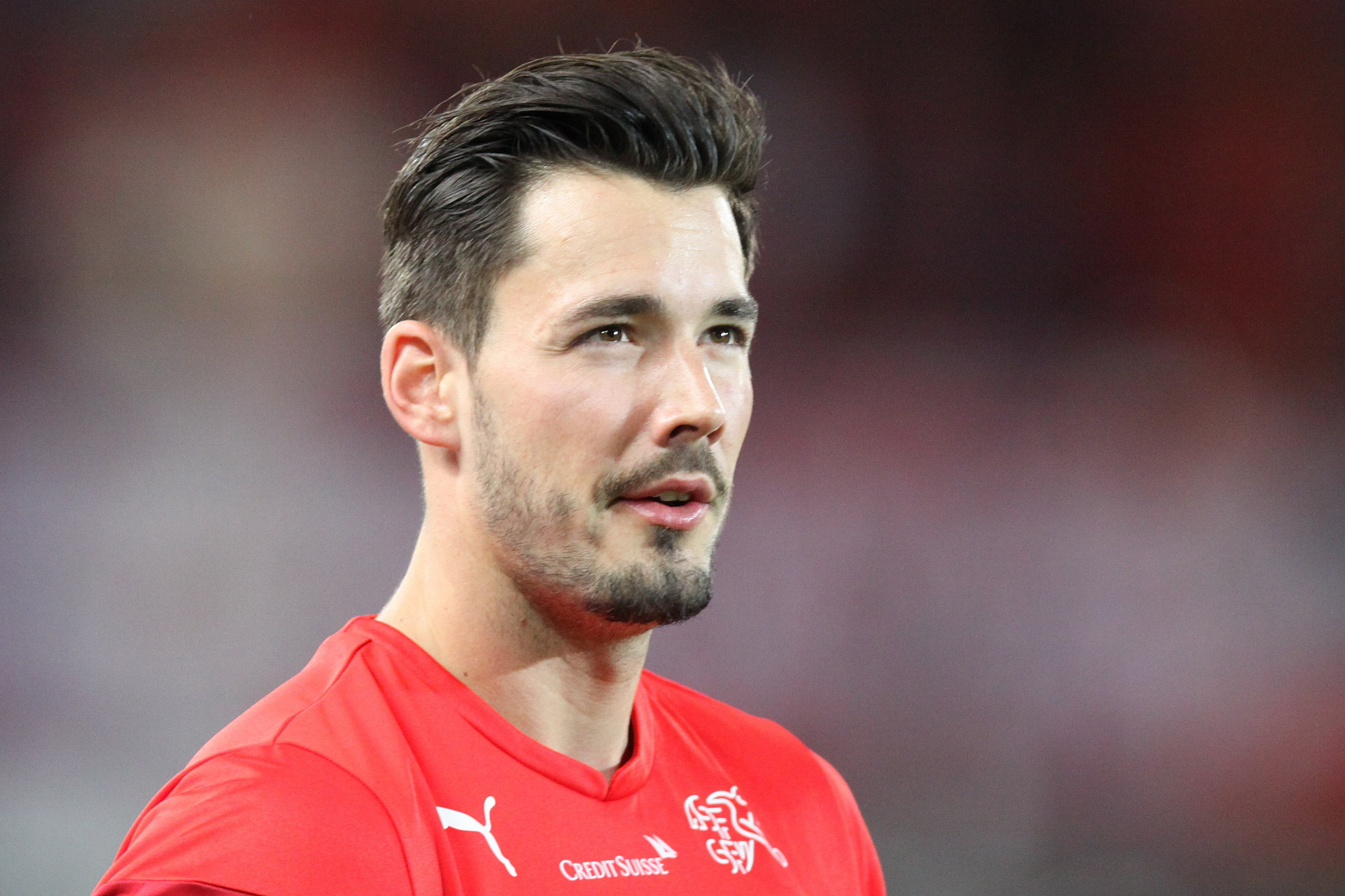 Friendly match – Austria (red shirts) vs. Switzerland (white shirts) 1-2 (1-2) – 2015-11-17 in Vienna, Ernst-Happel-Stadion – The photo shows goalkeeper Roman Bürki (Switzerland).